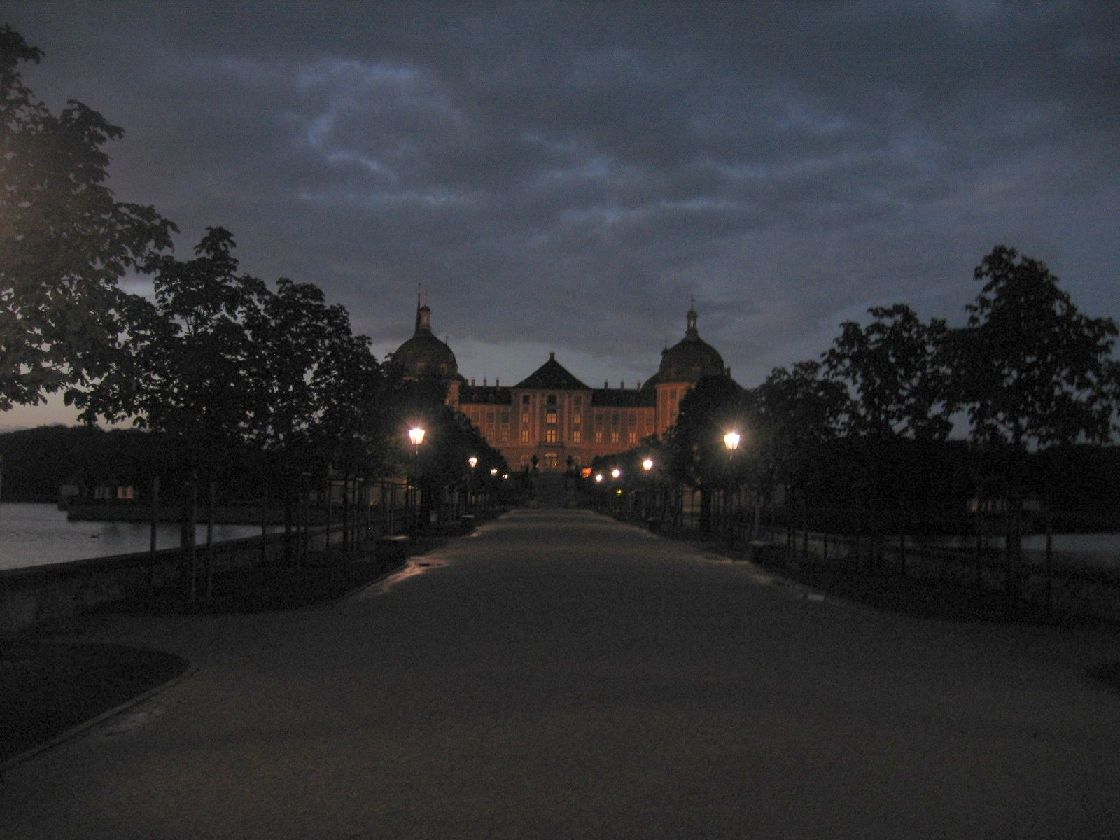 Moritzburg castle in twilight